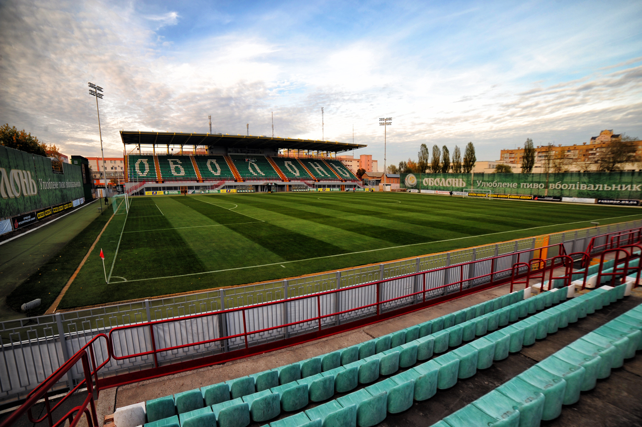 Obolon Arena in Kyiv, Ukraine